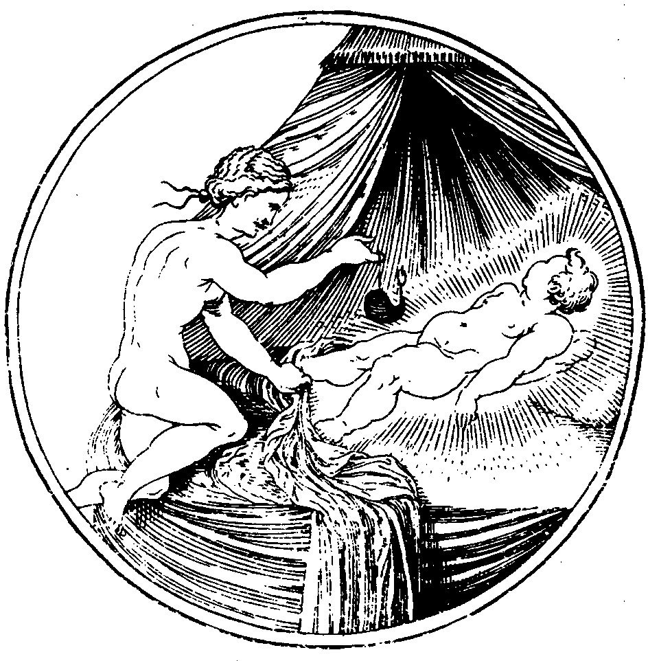 Cesare Ripa, Iconologia, translated into French by Jean Baudoin, 1643 edition.